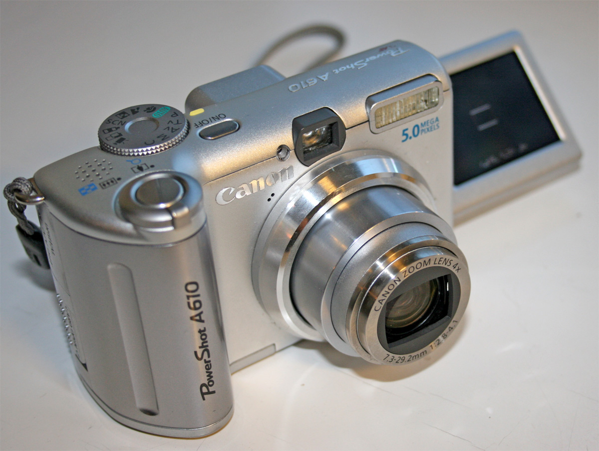 Canon PowerShot A610